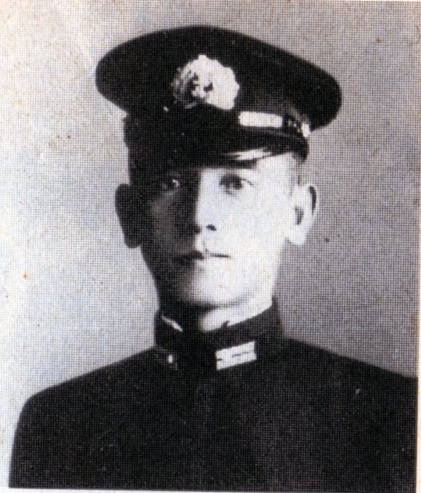 Higai Jouji was an Imperial Japanese Navy Captain